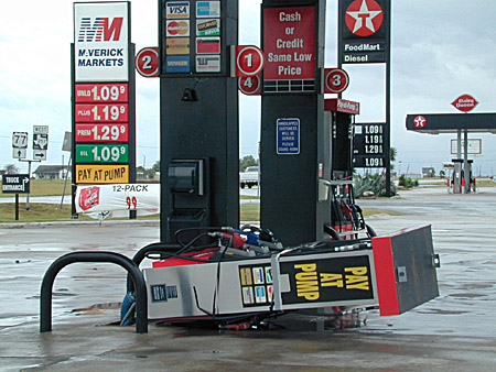 Damage from Hurricane Bret (1999) in Nueces County, Texas